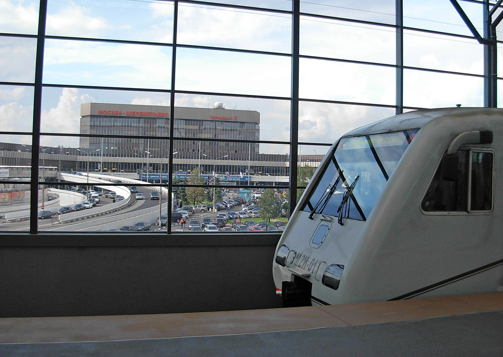 Sheremetevo-Express train (EM2I-013) at the station in front of the Sheremetevo-2 terminal in Moscow